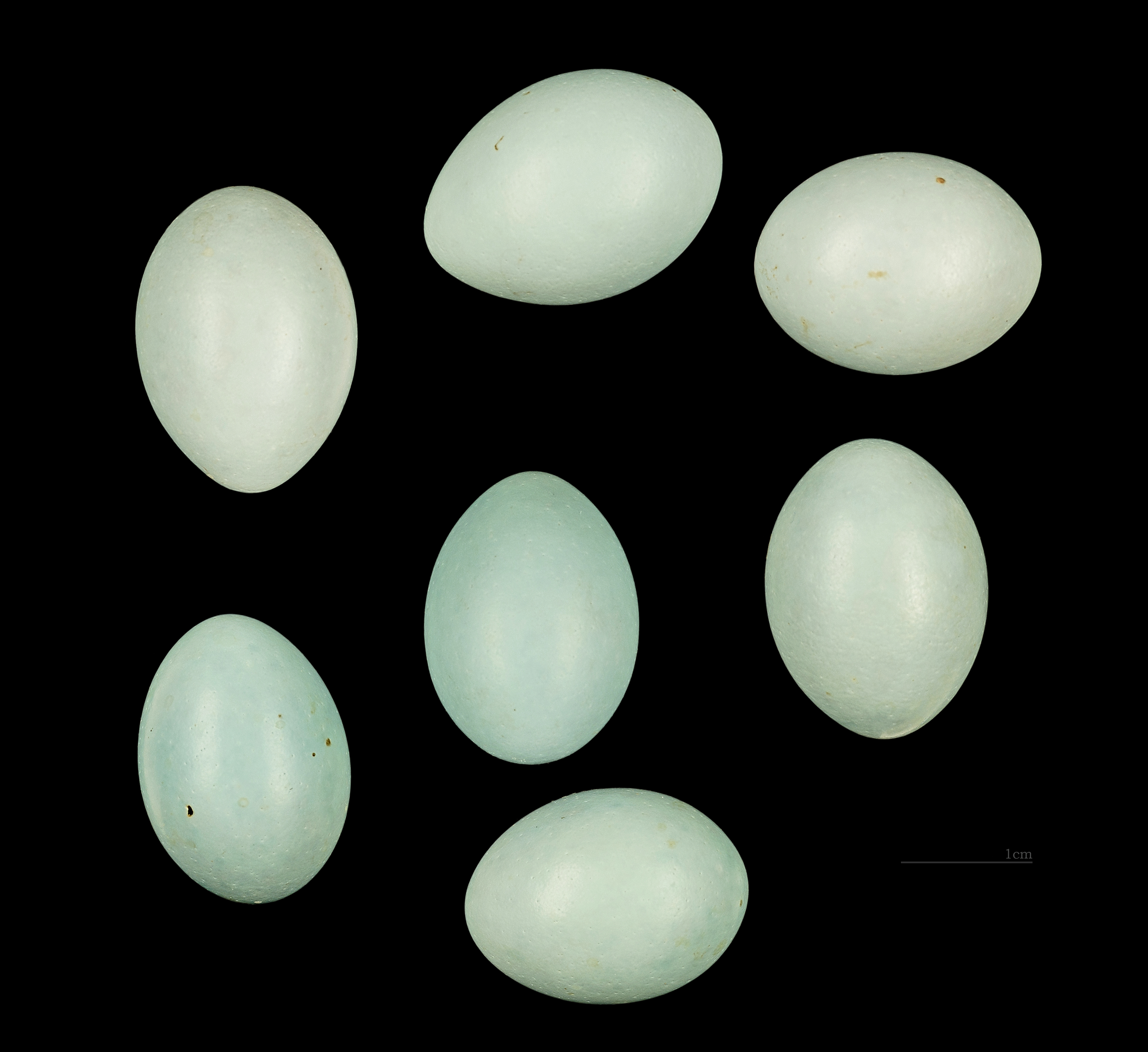 Egg of Sakalava Weaver. Collection of Jacques Perrin de Brichambaut.